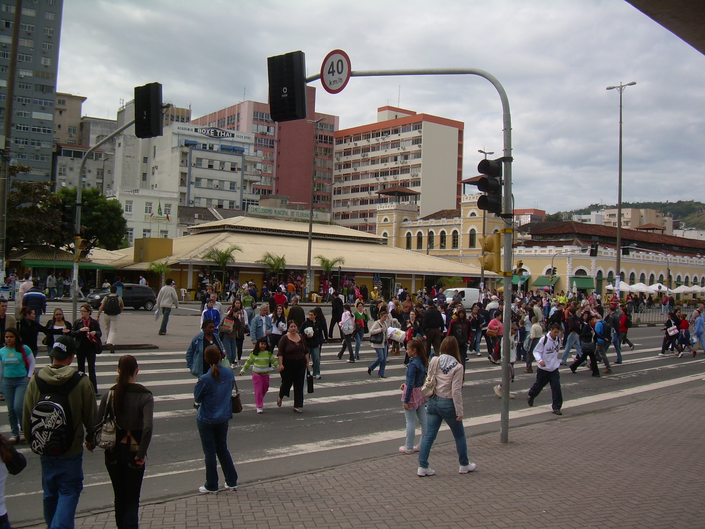 Bus terminal in centre of Florianópolis.